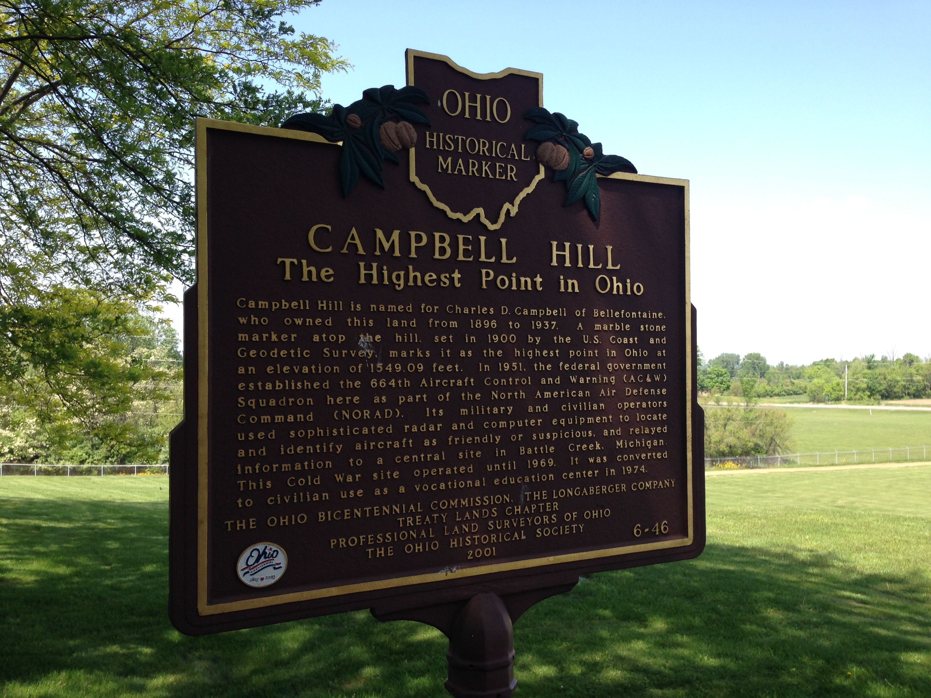 A sign on the summit of Campbell Hill, the highest point in Ohio.